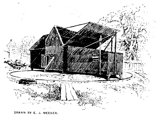 Exterior of Edison's kinetographic theater.